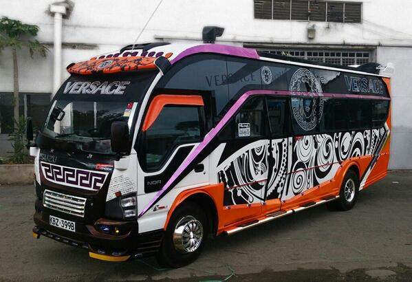 A recent photo of a made-up matatu